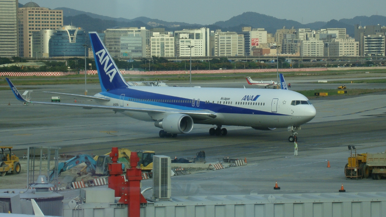 All Nippon Airways Boeing 767 arrived at Songshan Airport, ready to dock 1 terminal air bridge.